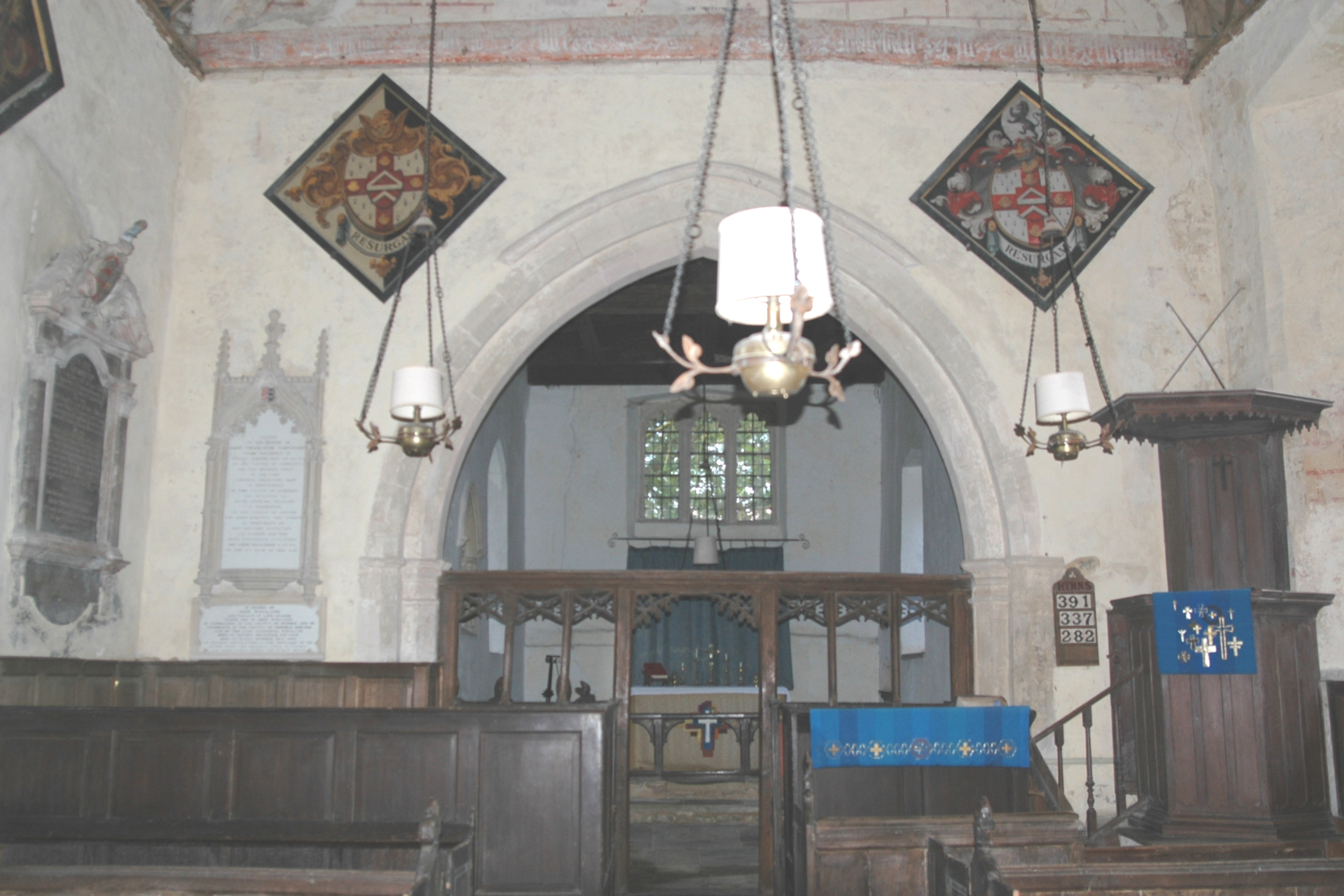 Church of England parish church of the Holy Rood, Woodeaton, Oxfordshire: nave interior looking east towards the chancel arch.